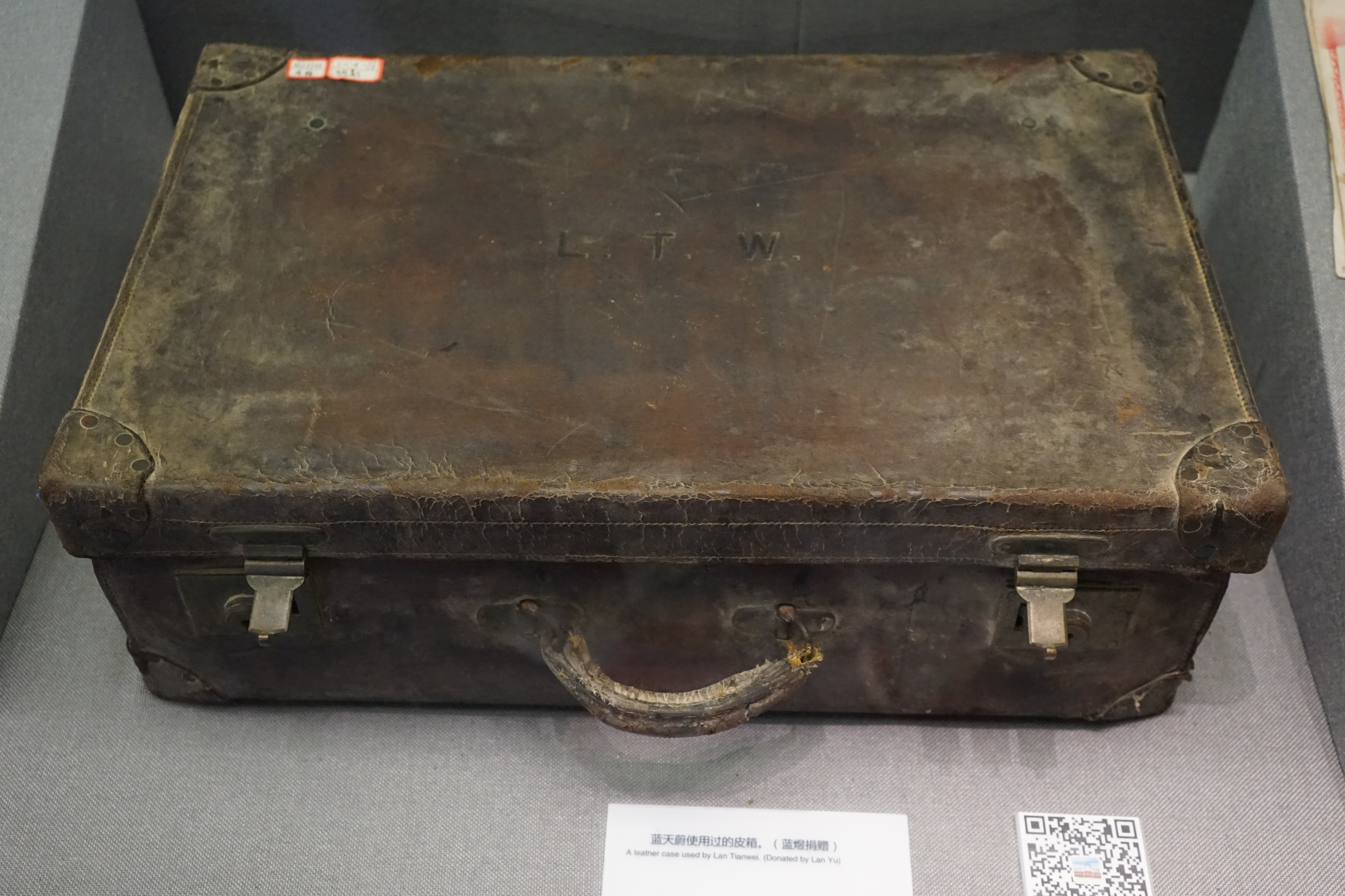 A leatner case used by Lan Tianwei (donated by Lan Yu)